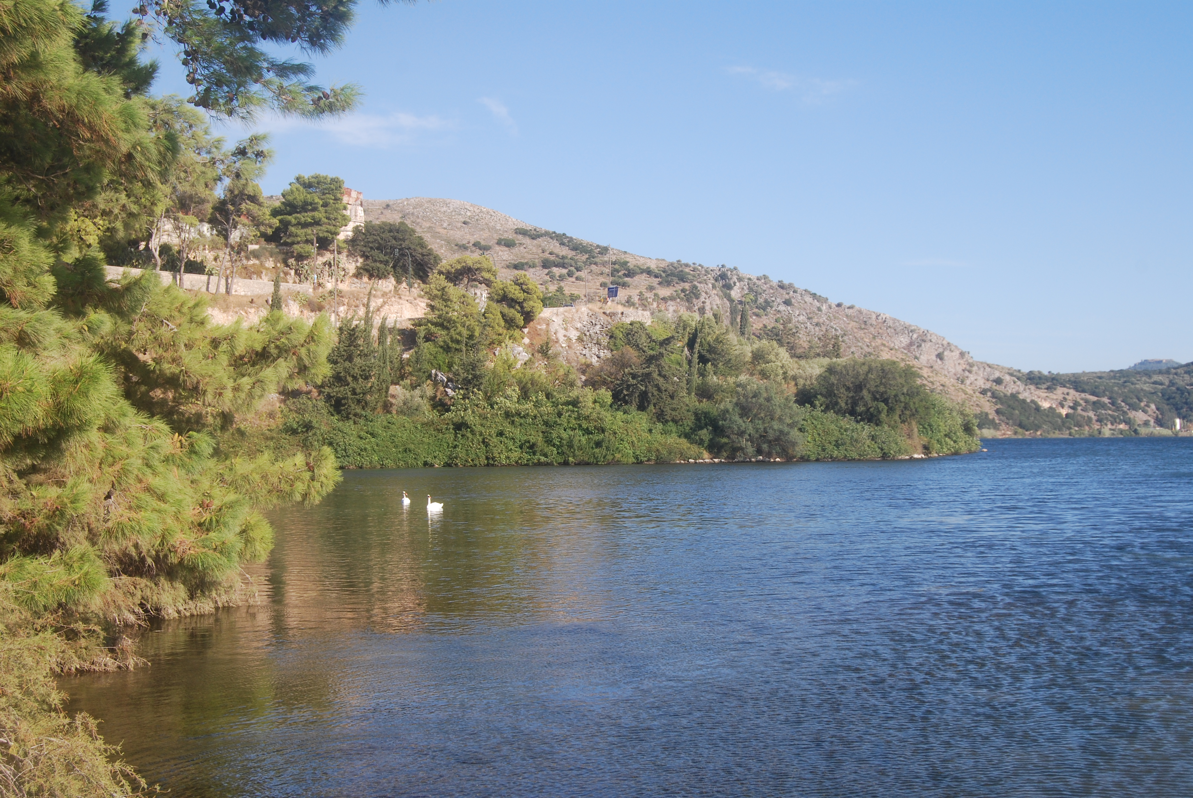 Koutavos lagoon in Argostoli, Kefallonia